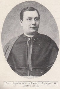 Kardinal Andrea Aiuti (1849-1905)